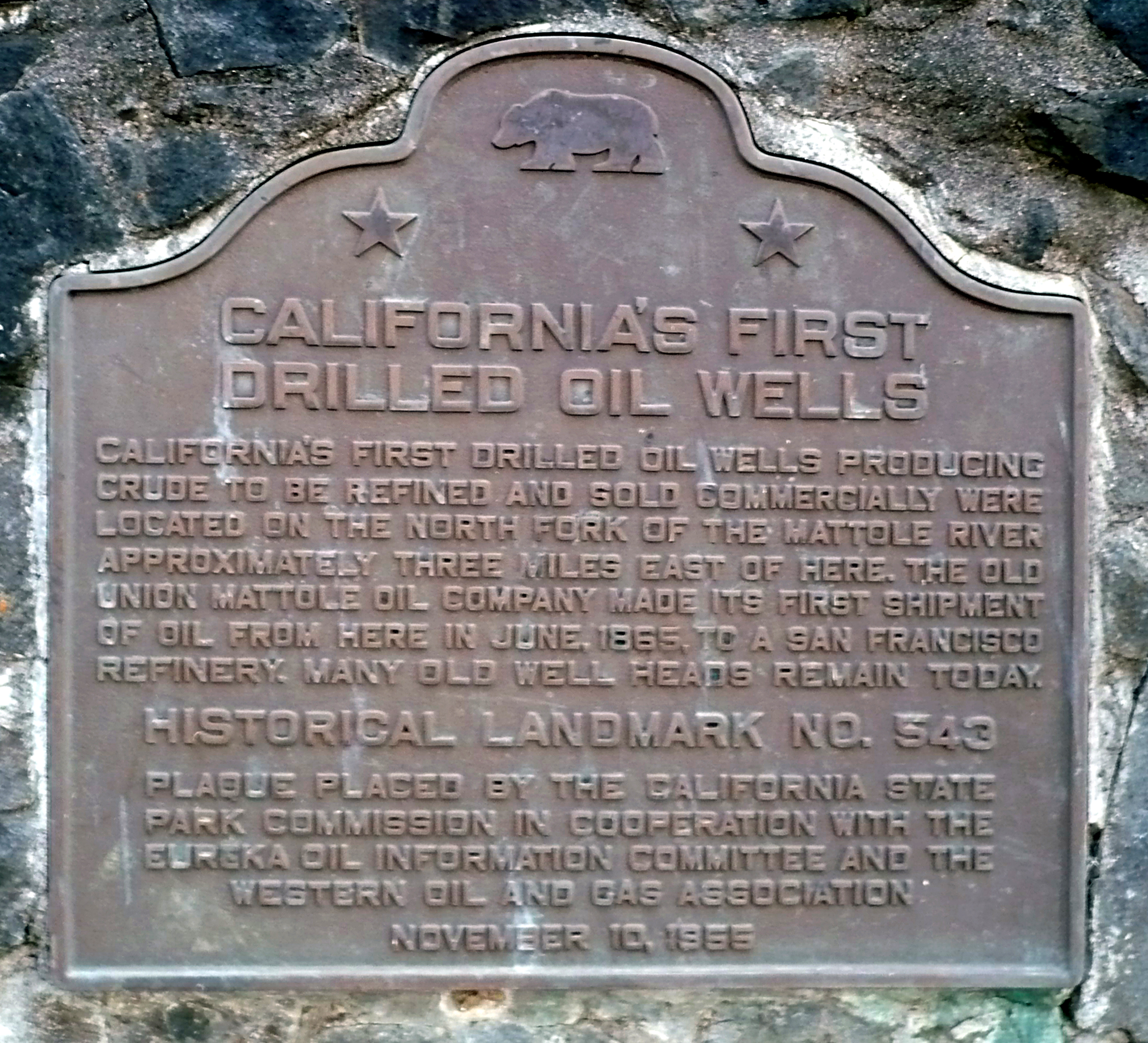 A photograph of California Historical Landmark #543 in Petrolia, California. The caption reads: NO. 543 CALIFORNIA'S FIRST DRILLED OIL WELLS - California's first drilled oil wells that produced crude to be refined and sold commercially were located on the North Fork of the Mattole River approximately three miles east of here. The old Union Mattole Oil Company made its first shipment of oil from here, to a San Francisco refinery, in June 1865. Many old well heads remain today. Historical Landmark #543. Plaque placed by the California State Park Commission in cooperation with the Eureka Oil Information Committee and the Western Oil and Gas Association. November 10, 1955" Location: NE corner Mattole Rd and Front St, Petrolia